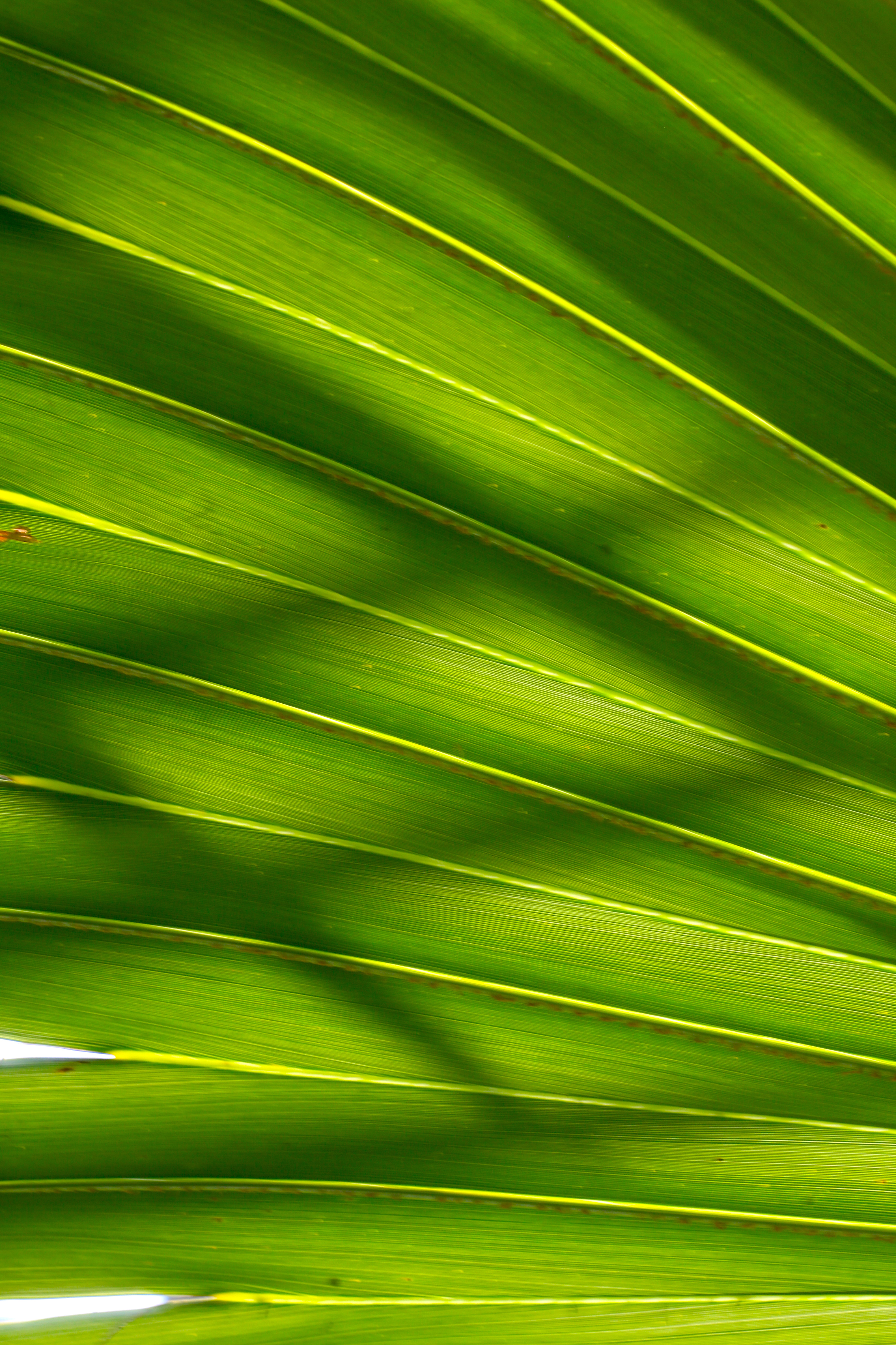 อุทยานแห่งชาติศรีพังงา